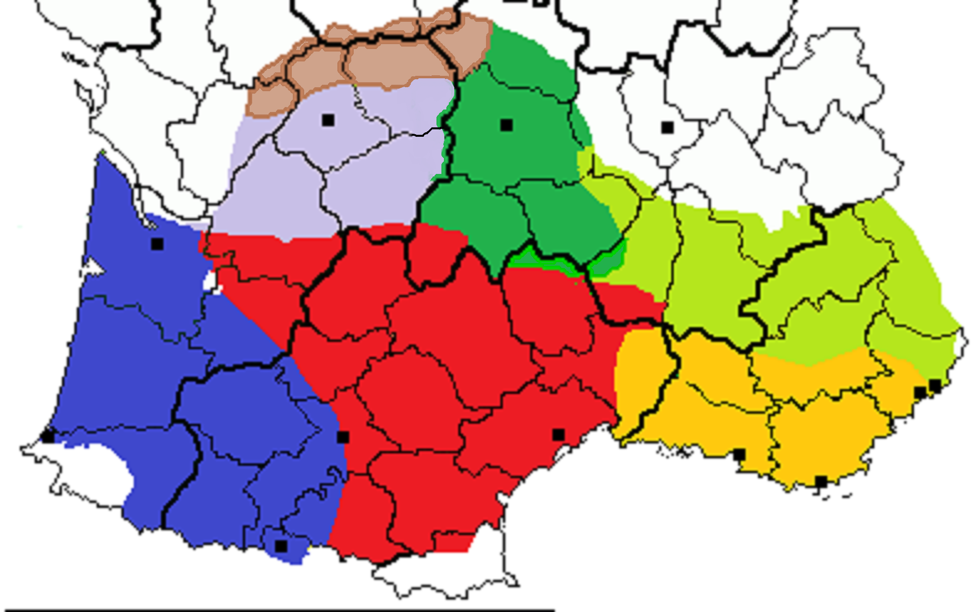 Occitan dialectes